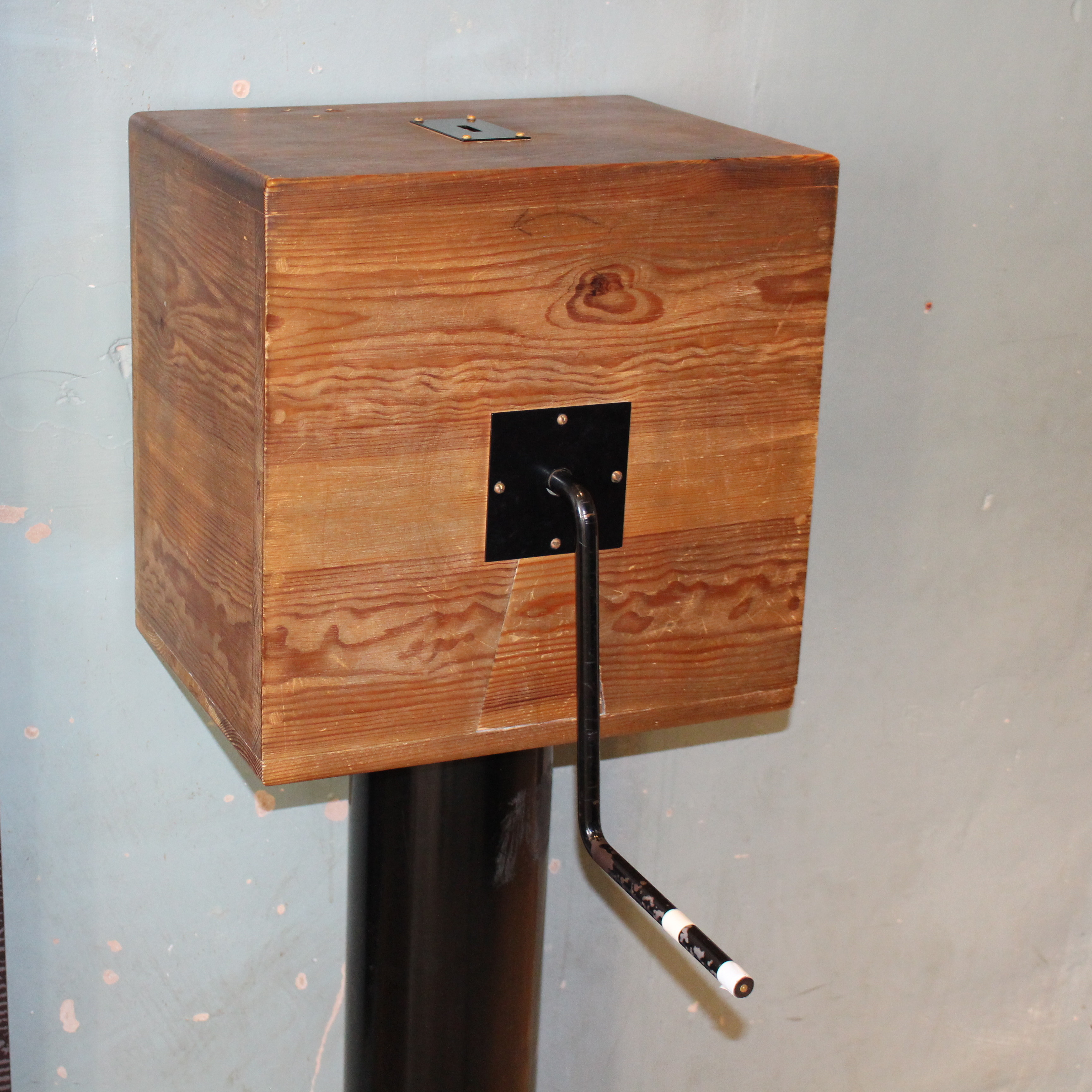 Crank machine from Oxford Castle & Prison British